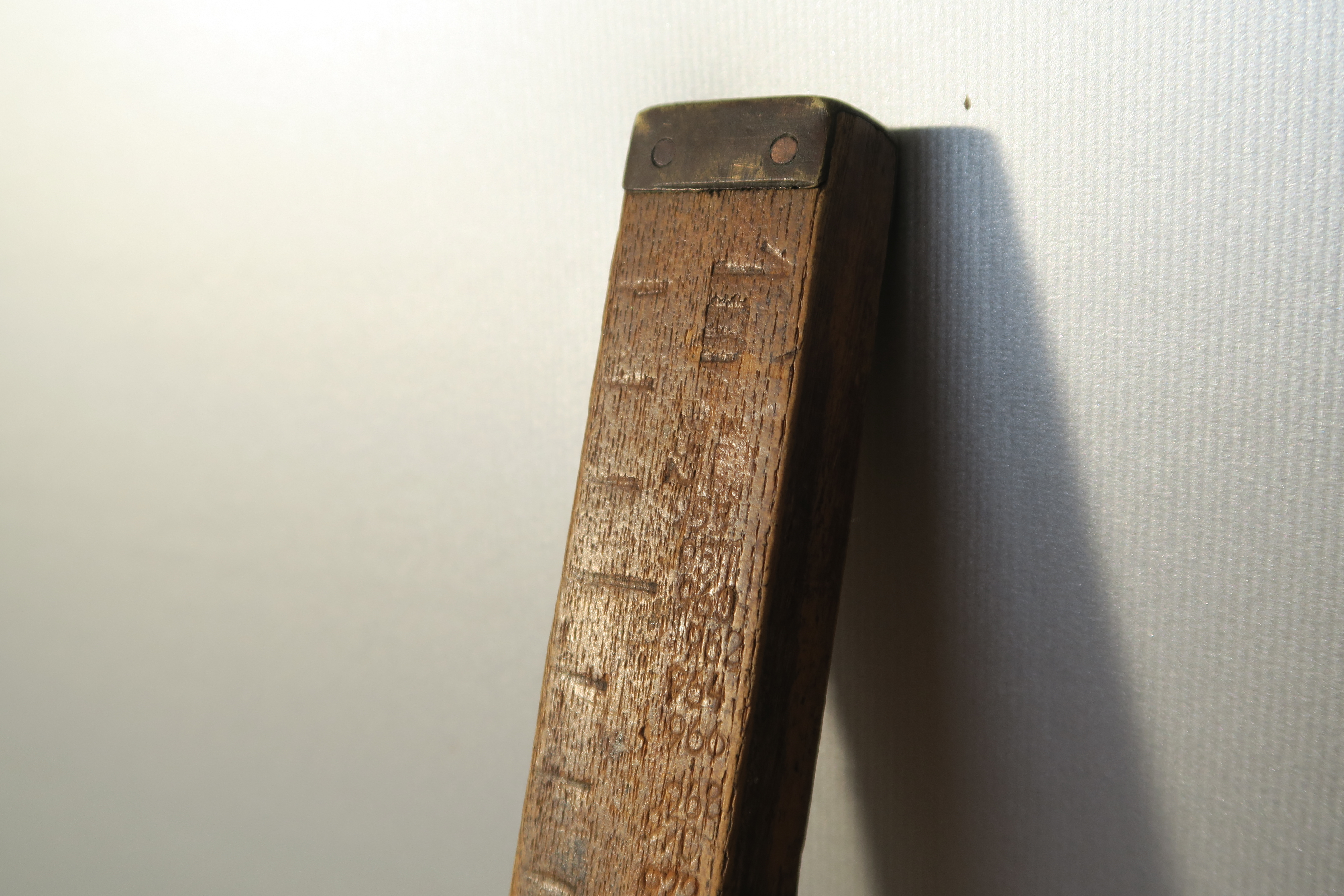 Metre Meter Maßstab